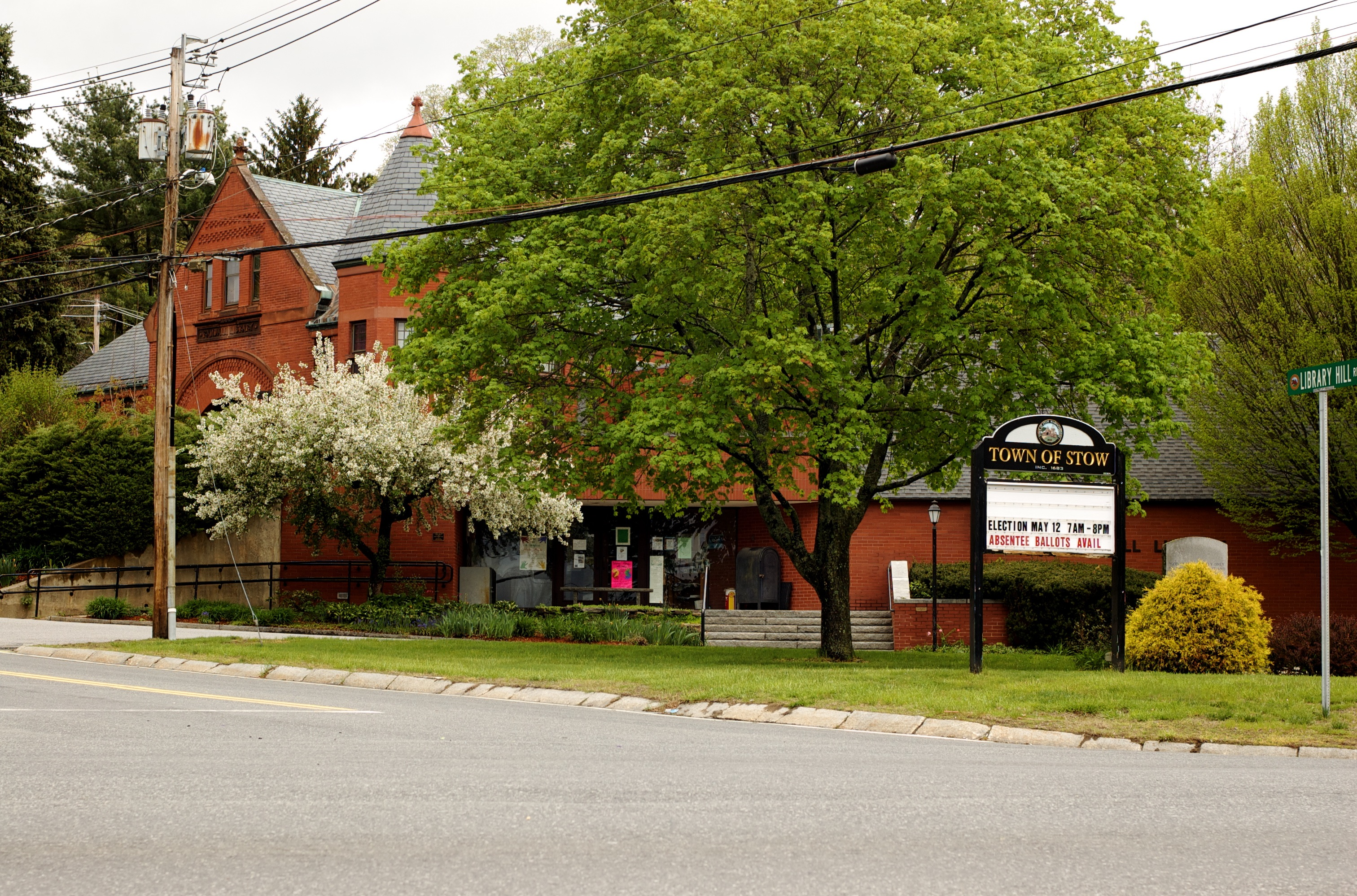 Stow, Massachusetts town center, by the "Town of Stow" sign on the green and the Randall Library.